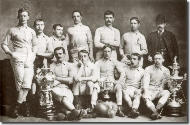 Blackburn Rovers cup winners in 1883-1884. The first FA Cup win for the team. The photograph includes the East Lancashire Charity Cup; the FA Cup and the Lancashire Cup. Back row (left to right): J. M. Lofthouse, H. McIntrye, J. Beverly, W. J. H. Arthur, F. Suter, J. Forrest, R. Birtwistle (umpire) Front row (left to right): J. Douglas, J. E. Sowerbutts, J. Brown, G. Avery, J. Hargreaves. Found in According to the UK Technical Advisory Service for Images, this work is in the Public Domain. The lifetime of copyright is: "Anonymous/corporation authors: 70 years from year of publication. Special rules for unpublished works."[1]